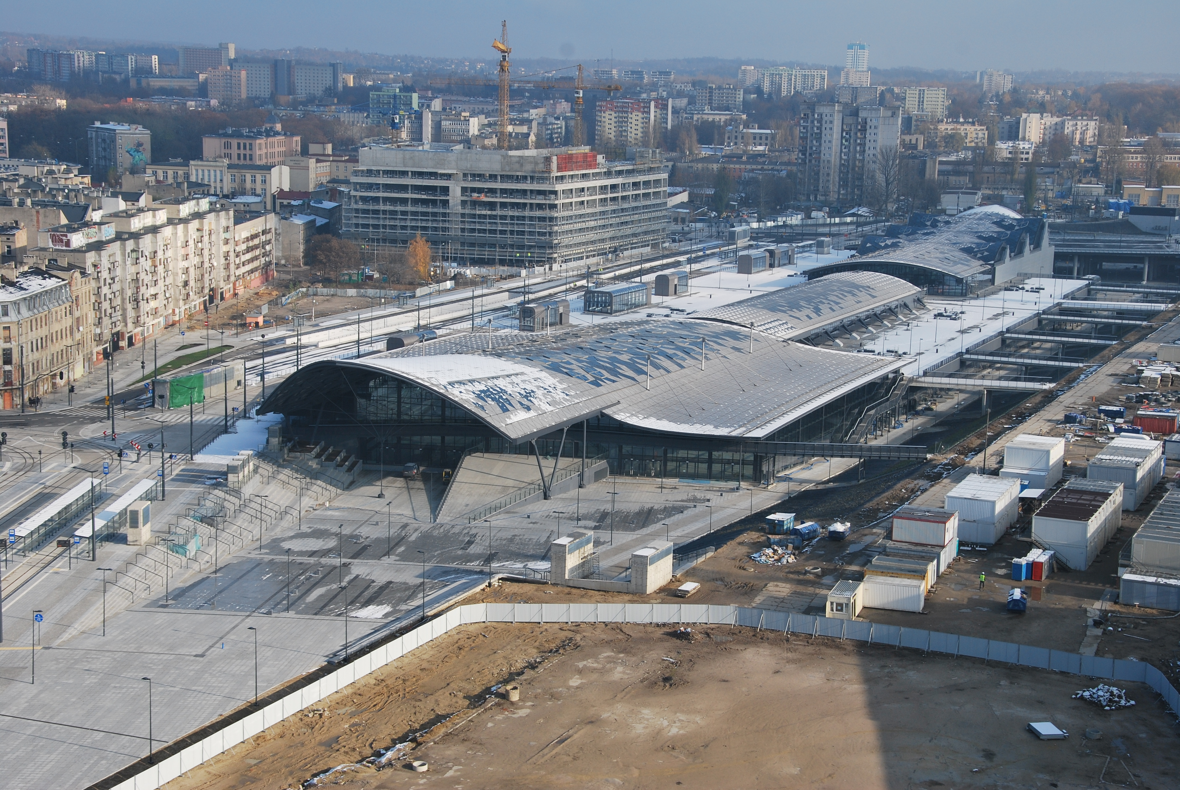 Building new Łódź Fabryczna Station in November 2016